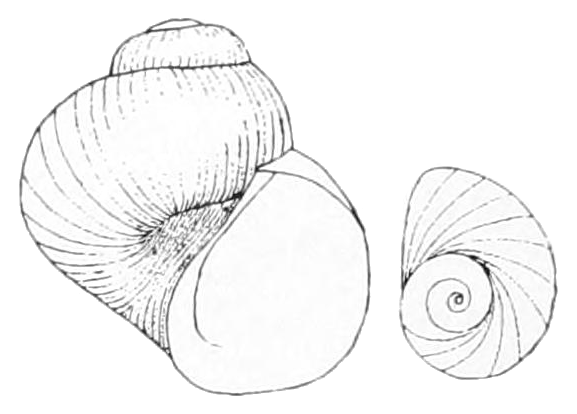 Drawing of apertural view of the shell and its operculum of Clappia umbilicata, synonym Clappia clappi from Duncan's Riffle, Coosa River, Alabama.